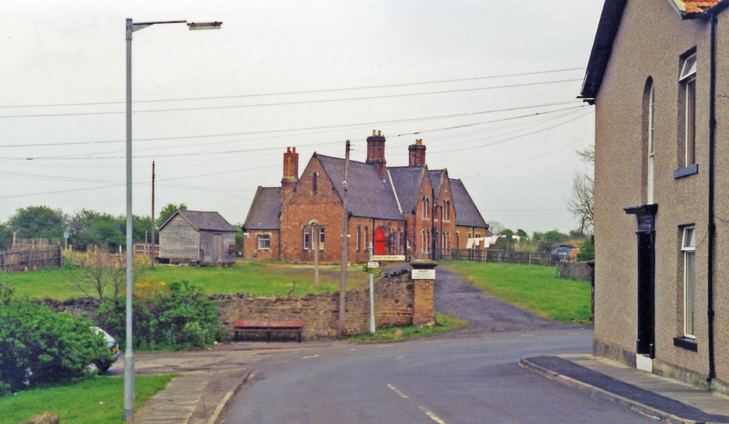 Etherley: former station, 1995. View NE, towards Bishop Auckland: ex-NE lines west and north from Bishop Auckland to:- Wearhead (closed (passengers) 29/6/53, goods later, until 1994 to Eastgate), Tow Law (closed 11/6/56, to Crook (8/3/65, goods 1/11/65). The station has been reopened occasionally since 1991 as 'Witton Park' for excursions, but is not available yet on the heritage Weardale Railway which passes through.